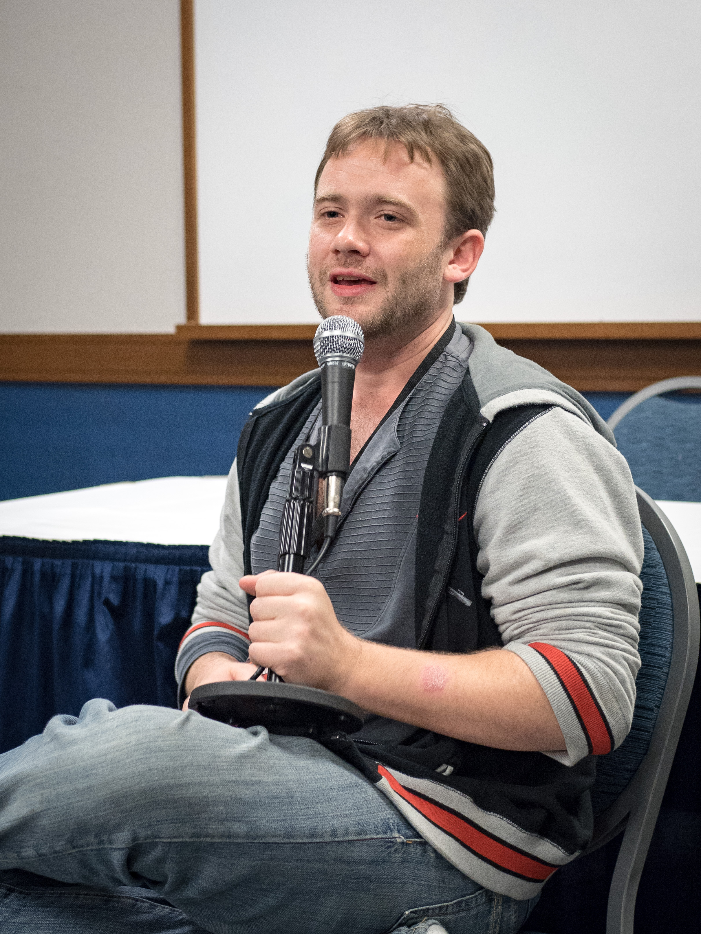 As seen at Magic Ciy Comic Con 2016 - Miami, FL